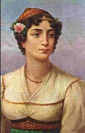 Manto Mavrogenous Greek heroine of the Greek War of Independence. Lithography of Manto Mavrogenous by Adam Friedel, 1827